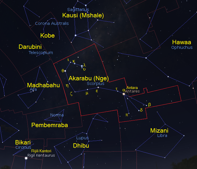 Constellation Scorpius as seen from Tanzania, Swahili labelled Kiswahili: Kundinyota Akarabu - Nge (Scorpius) jinsi inavyoonekana kutoka Tanzania, majina kwa Kiswahili